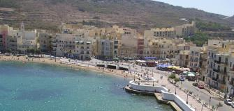 Marsalforn Coastal Line Licensing